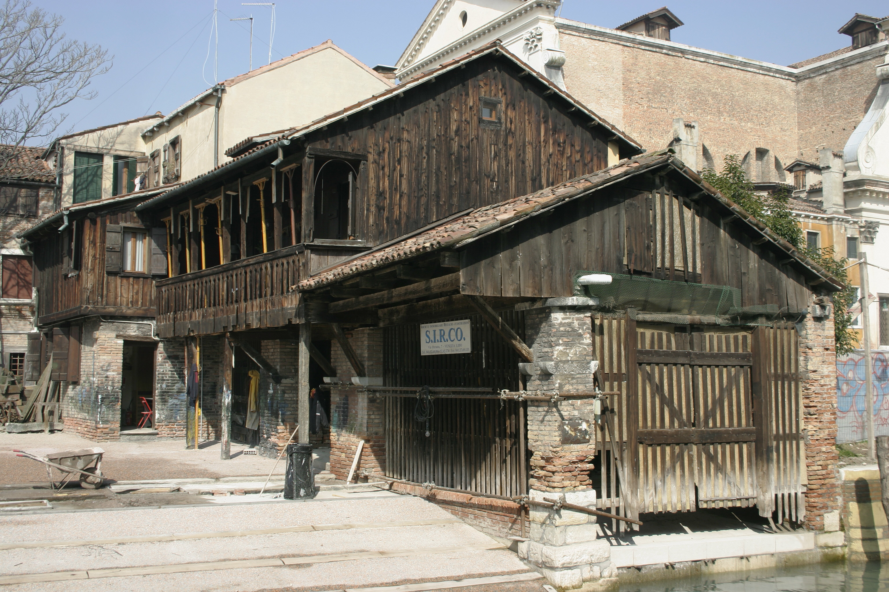 Venice - Squero S. Trovaso